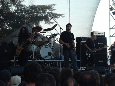 Fates Warning performing in 2007.